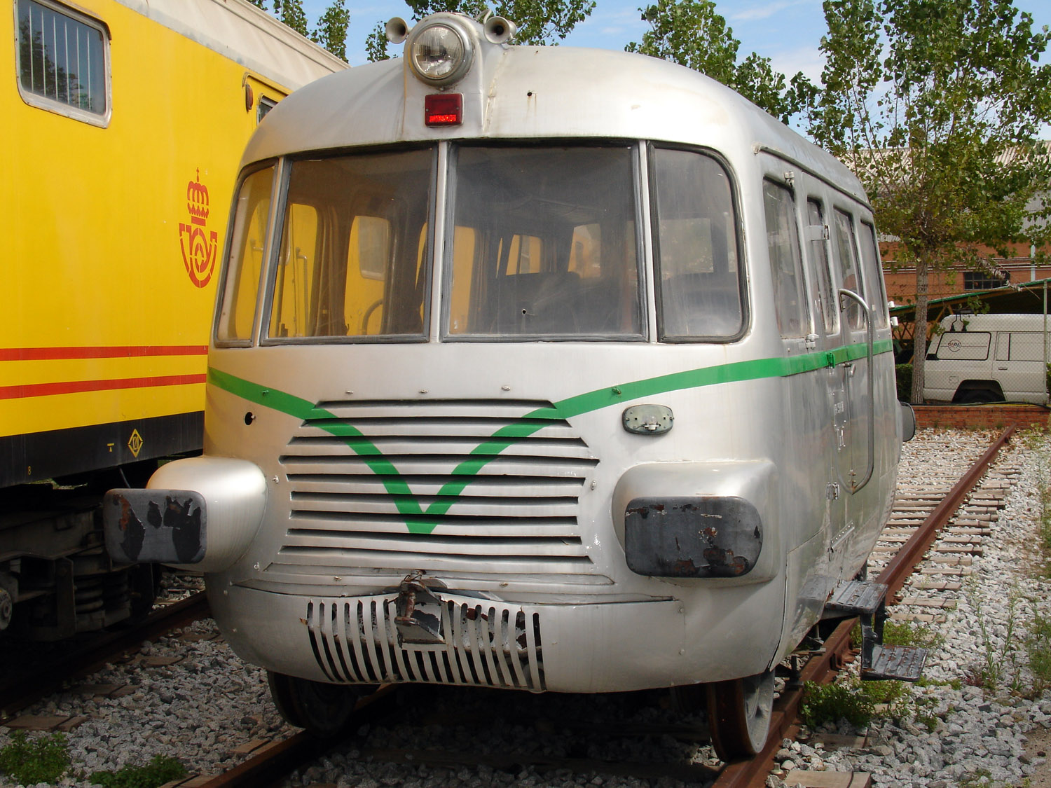 Dresina de Vía y Obras en el Museu de Ferrocarril de Catalunya antes de su última restauración